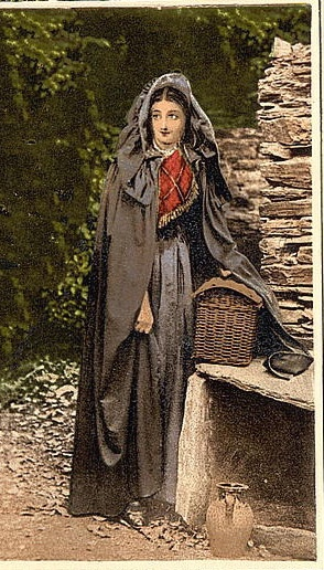 Woman wearing a Kinsale Cloak derived from a postcard called "Irish Jaunting Car" that is available from The Library of Congress on Flickr Commons